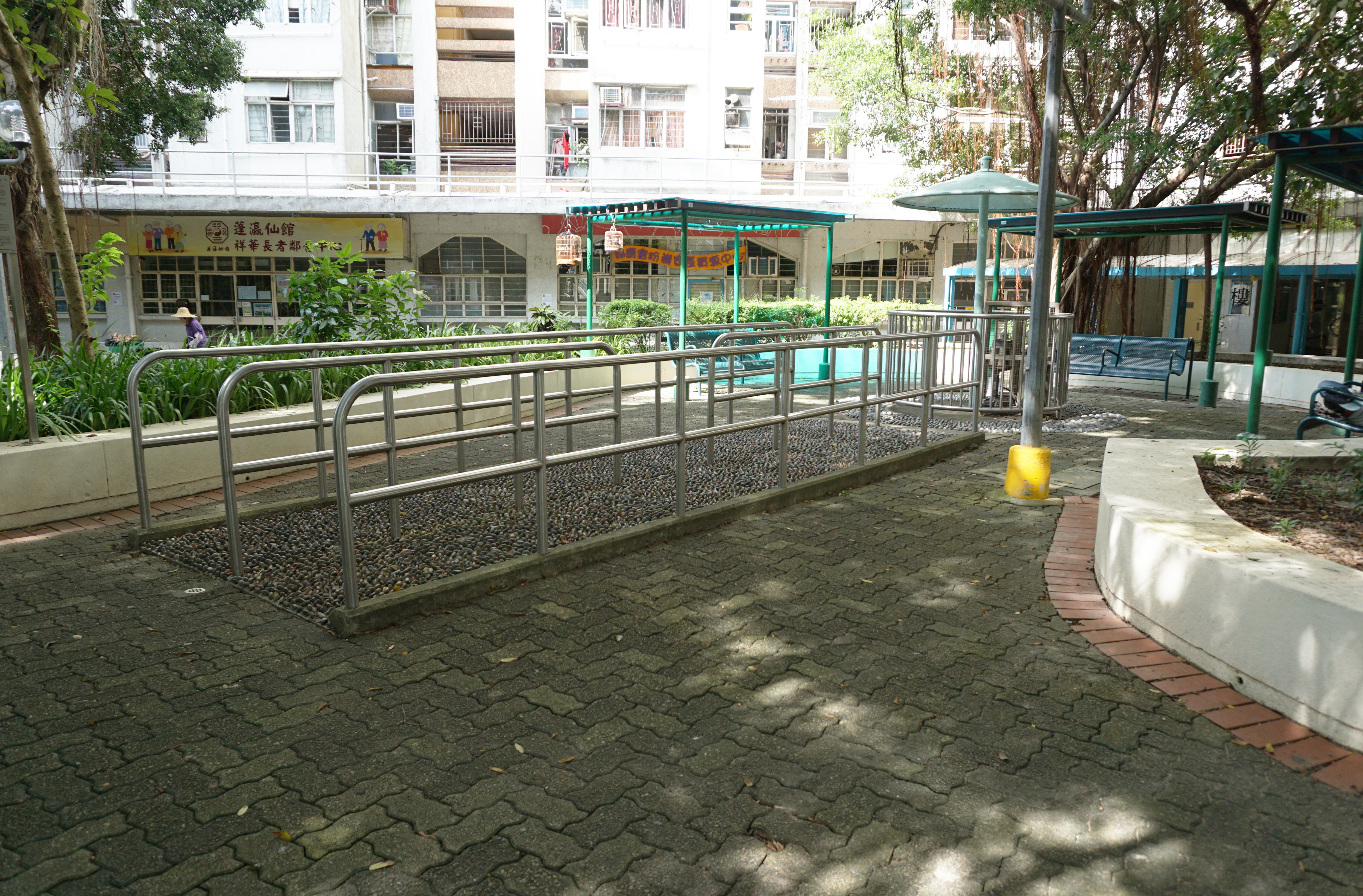 Cheung Wah Estate in Fanling, Hong Kong.